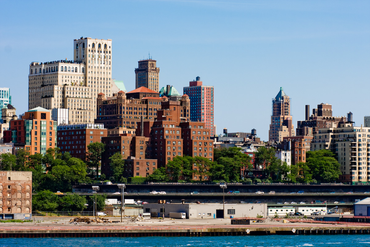 View of Brooklyn from South Street Seaport